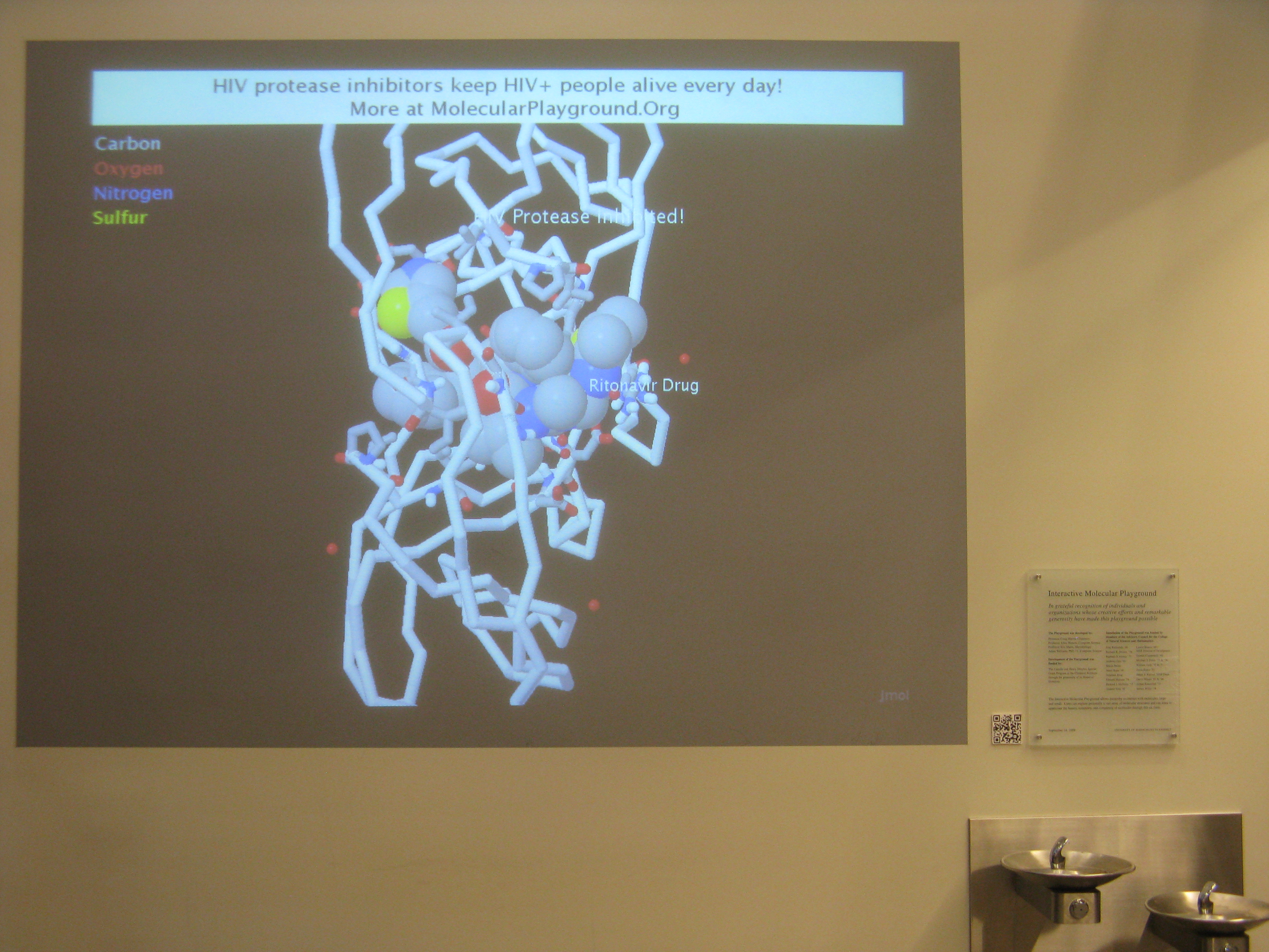 Molecular Playground installation at the Integrated Sciences Building of the University of Massachusetts Amherst displaying Ritonavir binding to HIV-1 protease.